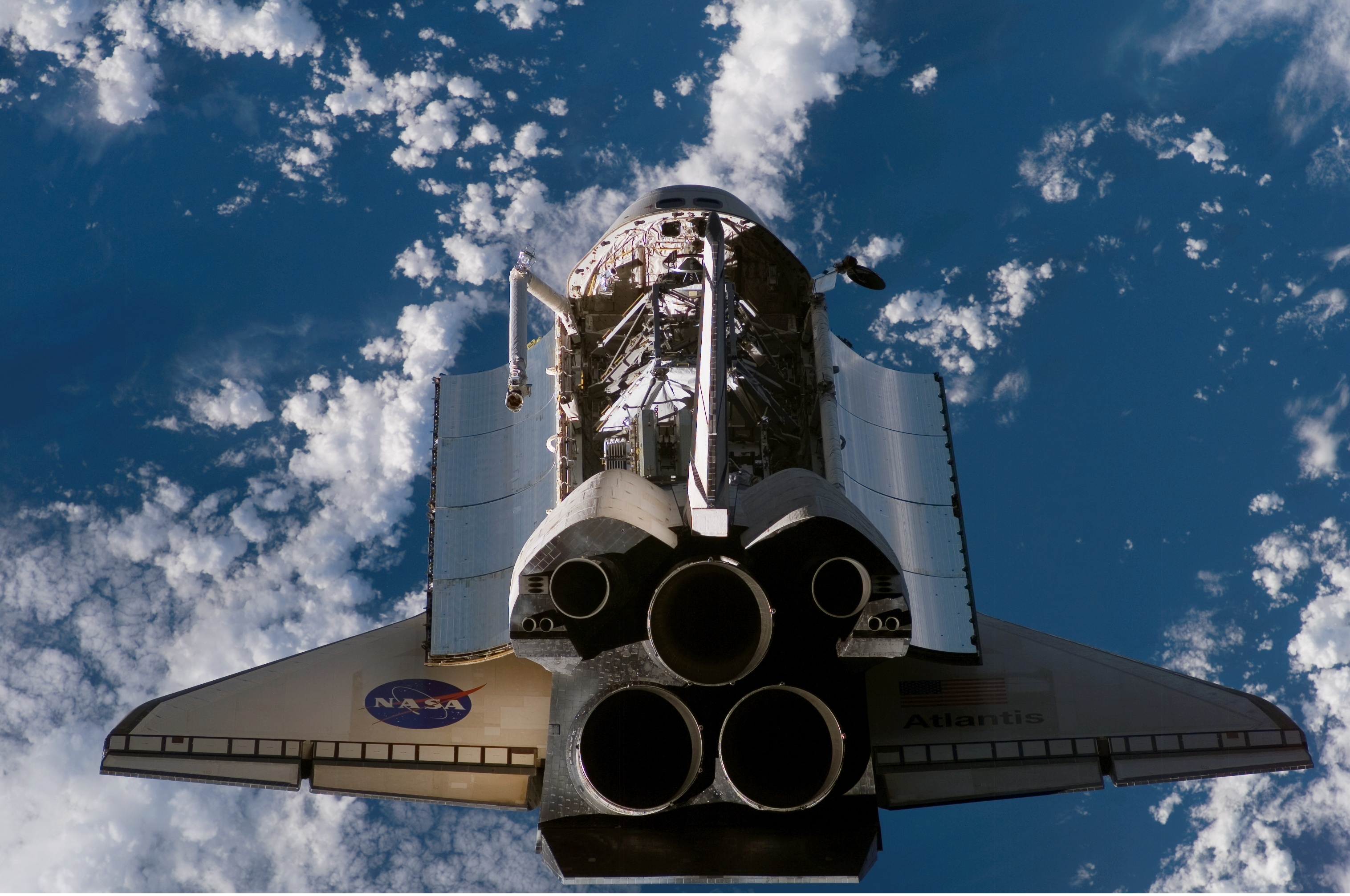 A view photographed from the International Space Station shows the Space Shuttle Atlantis from the aft looking forward as the two spacecraft were nearing their much-anticipated link-up in Earth orbit. The 17.8 ton S3/S4 truss to be added next week to the station can be seen berthed in the payload bay of the shuttle.